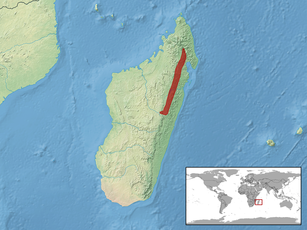 geographic distribution of Amphiglossus gastrostictus